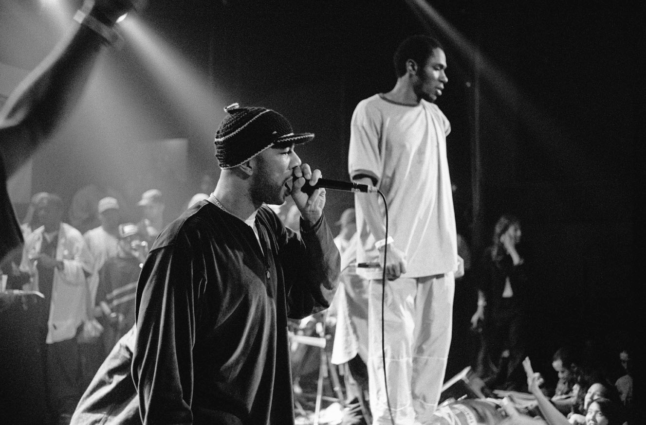 NYC 1999